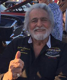 Blackie Gejeian (born 1926) is a race car driver, race car builder, and hot rod enthusiast. Considered an "Industry Legend", Gejeian is the organizer of the Autorama, a custom car show held annually in Fresno, California. Autorama is believed to be one of the largest custom car shows in North America.